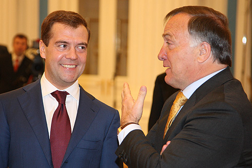 THE KREMLIN, MOSCOW. Meeting with players from St Petersburg football team Zenit. On the right – Dick Advocaat, the team’s chief trainer.